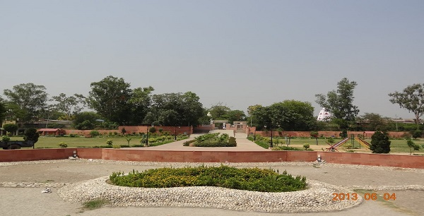 Suraj Kunda Park is most visited park in the city